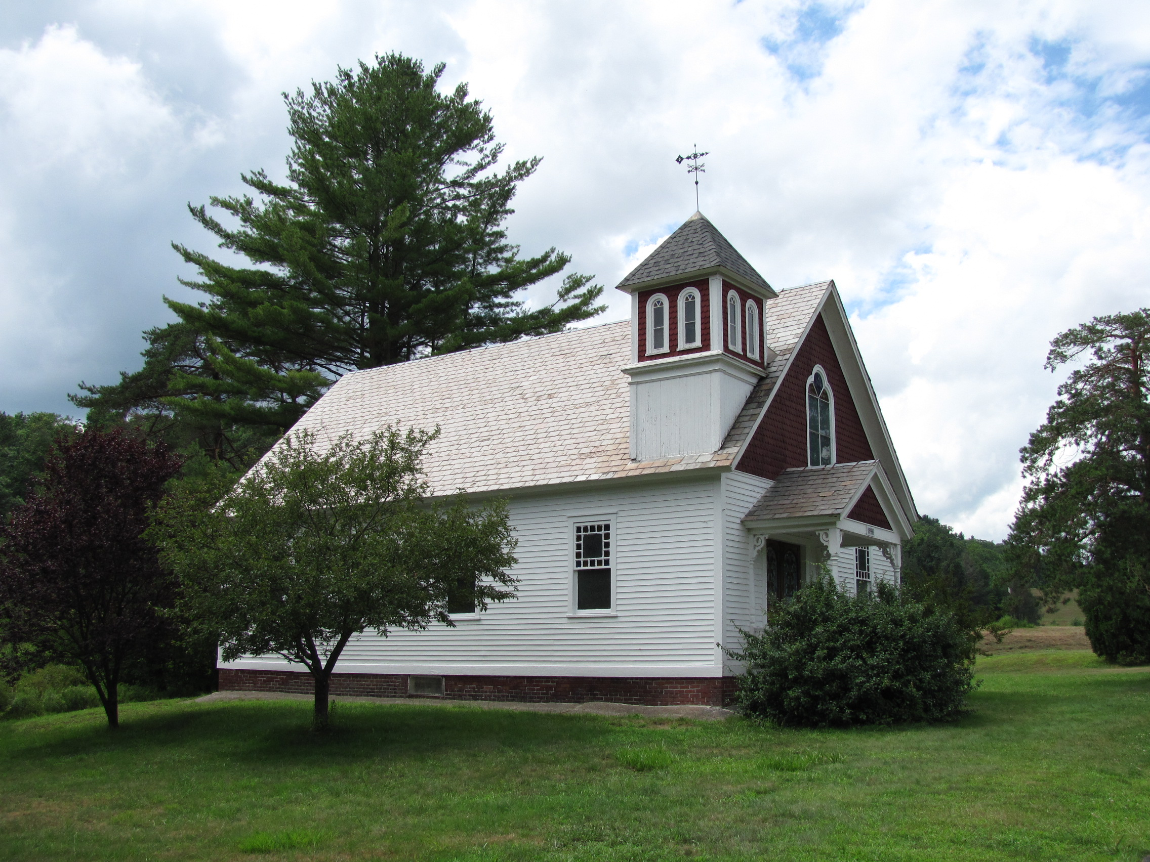 West Whately Chapel, Whately Massachusetts